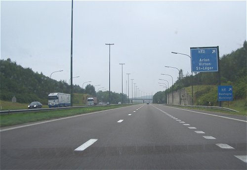 Highway A4 in Belgium, exit 29 Habay (in Habay-la-Vieille)